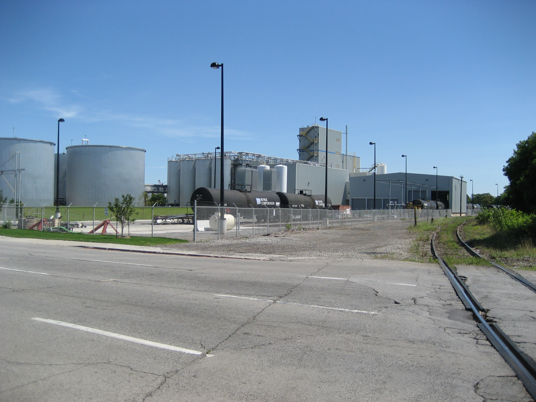 Victoria Avenue North, Hamilton, Canada.